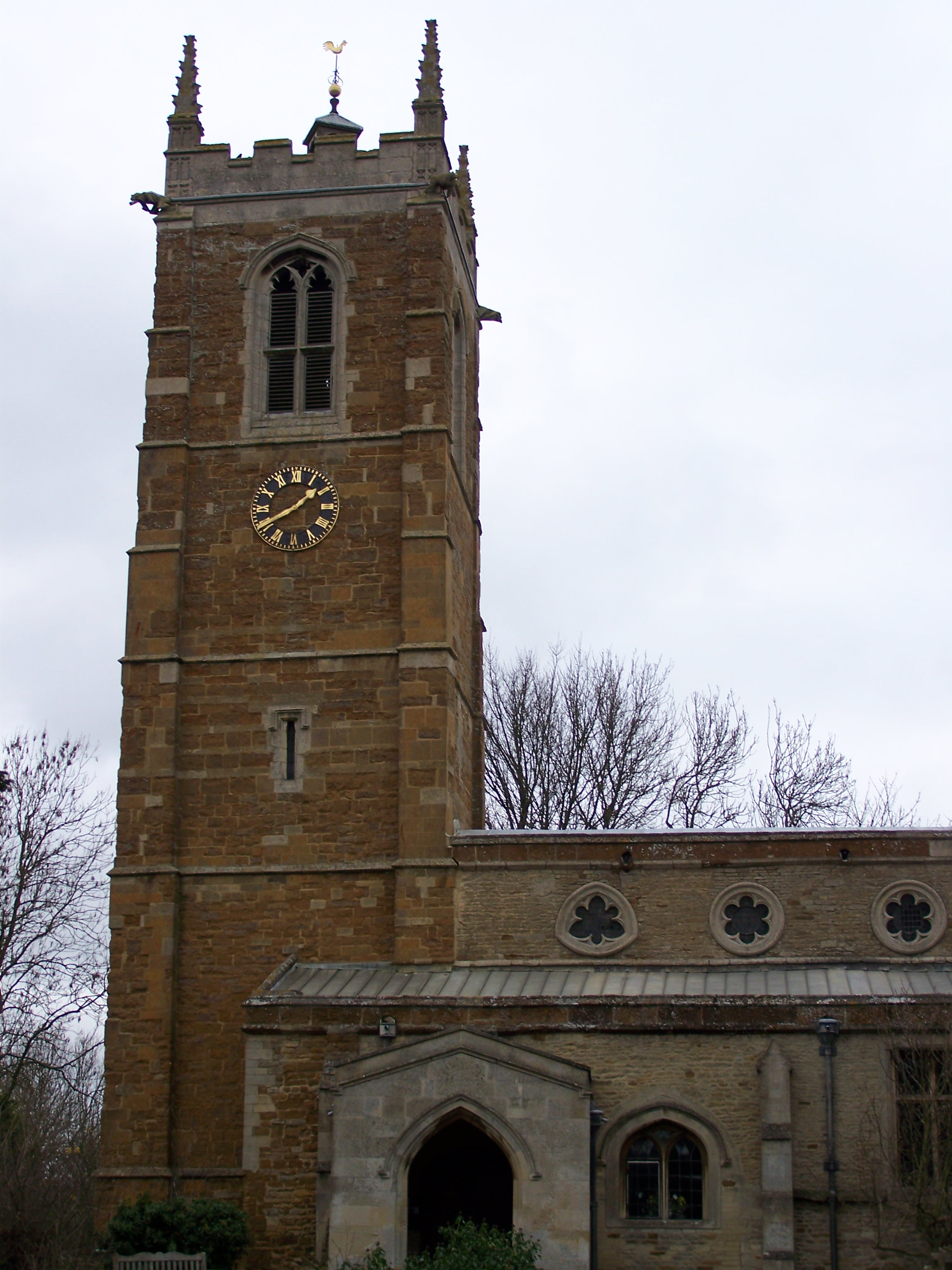 Church of England parish church of St James the Great, Gretton, Northamptonshire: west tower